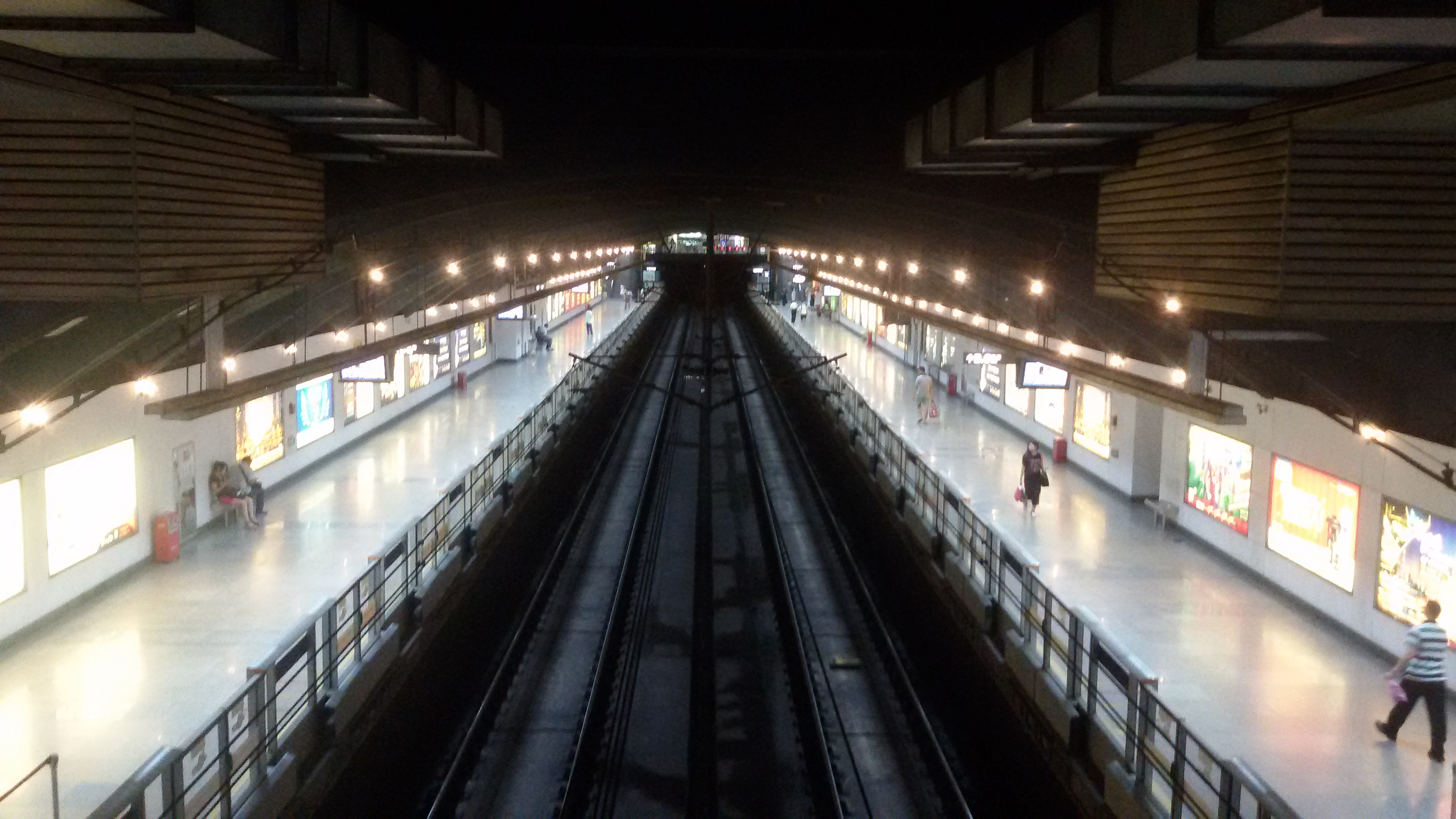 Platform for Huadiwan Station